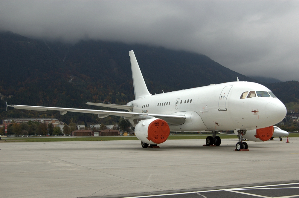 Tyrolean Jet Service's former A318